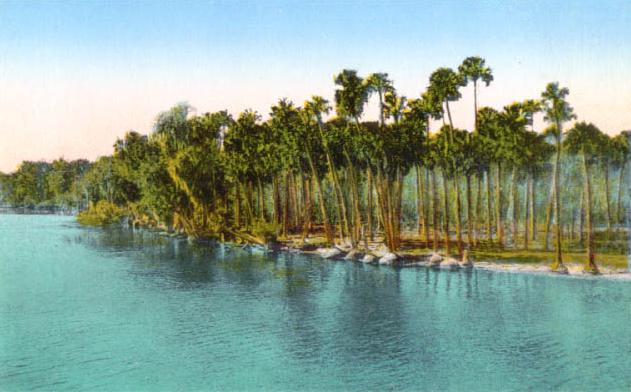 Lowlands along the St. Johns River, FL; from a c. 1915 postcard.